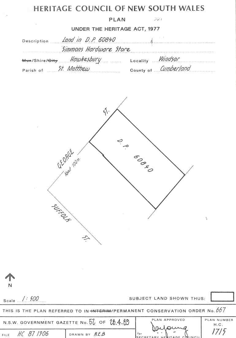 Simmons Hardware Store: PCO Plan Number 667